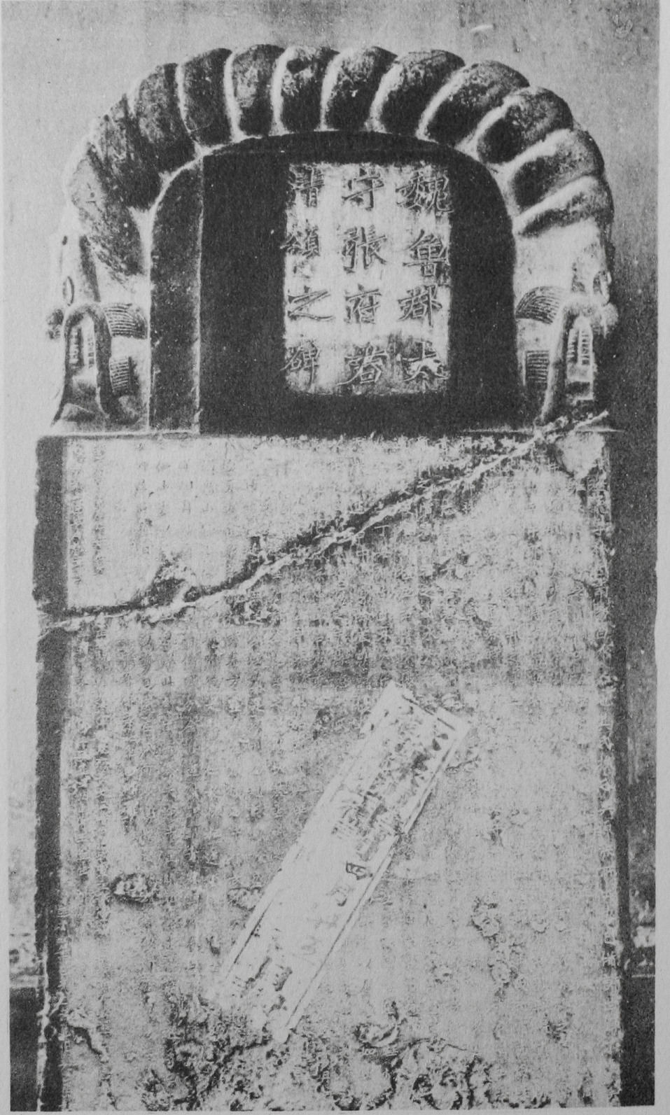 Zhang Meng Long bei stele AE522 in Shantong, China